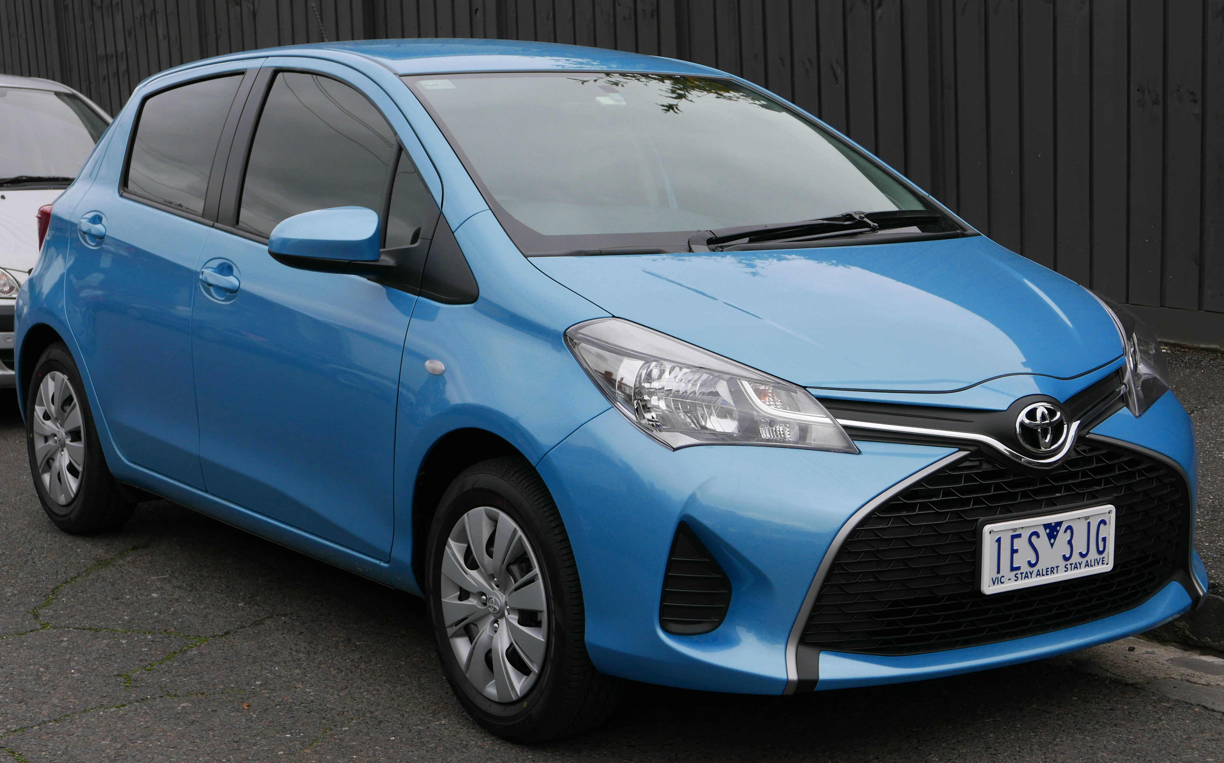 2015 Toyota Yaris (NCP130R) Ascent 5-door hatchback. Photographed in Brunswick East, Victoria, Australia. Vehicle registration enquiry resultsJurisdictionVictoriaRegistration1ES3JGChassis codeJTDKW3D360D565259Engine code2NZ7525742Compliance date2015-05Year of manufacture2015